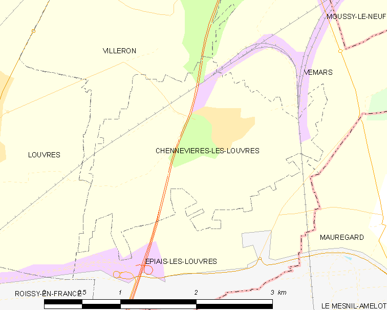 Map of French municipality Chennevières-lès-Louvres